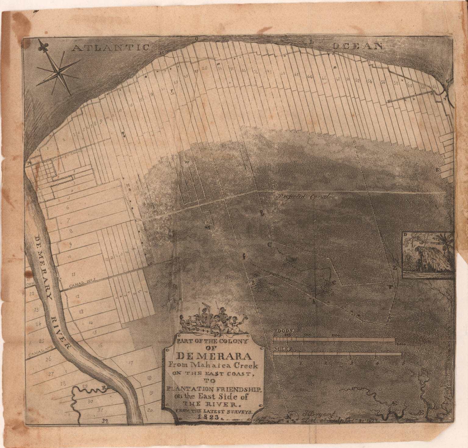 Account of an insurrection of the negro slaves in the colony of Demerara, which broke out on the 18th of August, 1823. Map of the colony of Demerara. Cartographic elements include compass rose, scales in miles and roods, locations of canals, river, and plantations. Items are lettered and numbered for identification in Description of the Plates at end of book. Small crosses mark the places where slaves' heads or bodies were displayed.